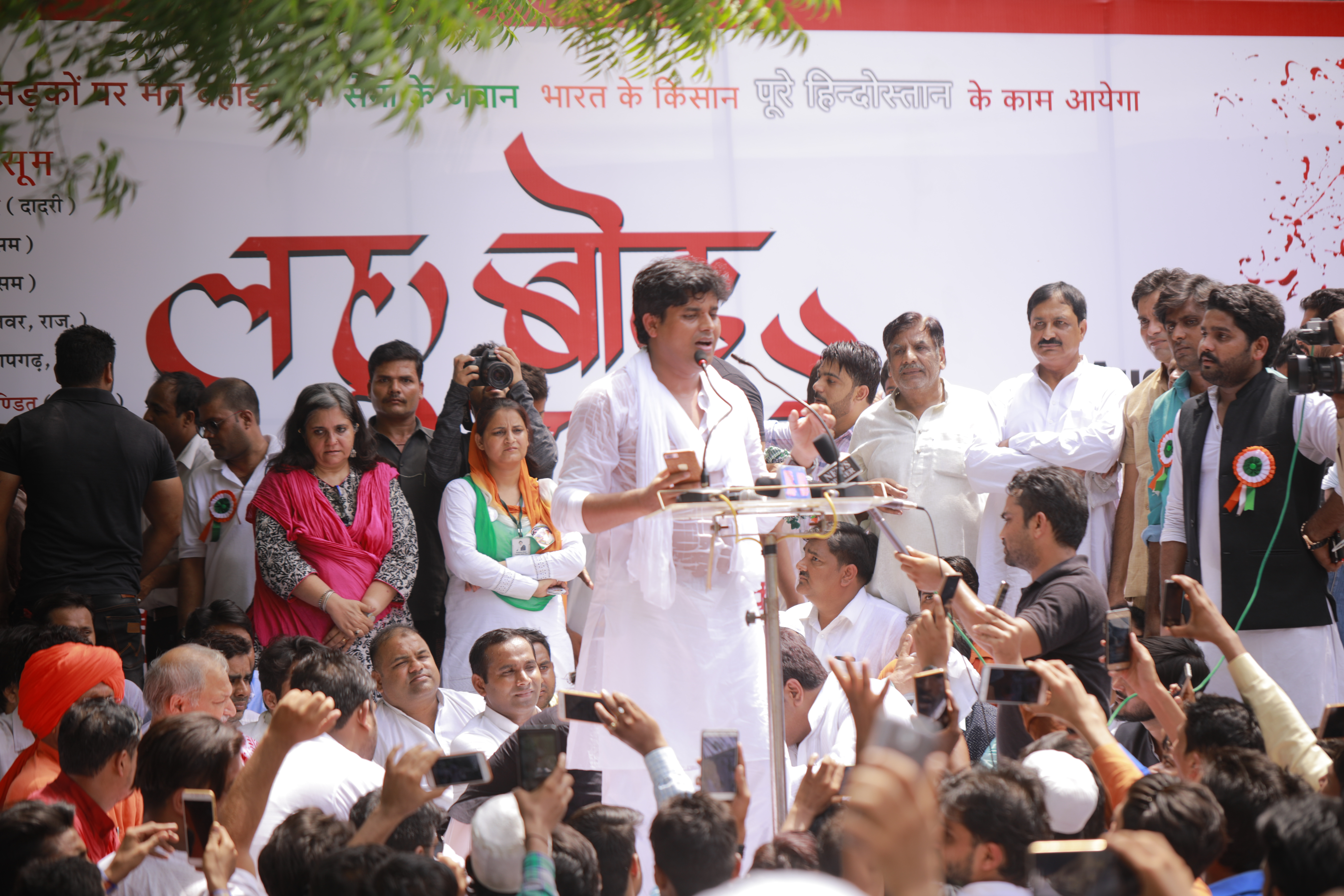 Imran Pratapgarhi addressing the gathering in "Lahu Bol Raha Hai" at Jantar Mantar , New Delhi